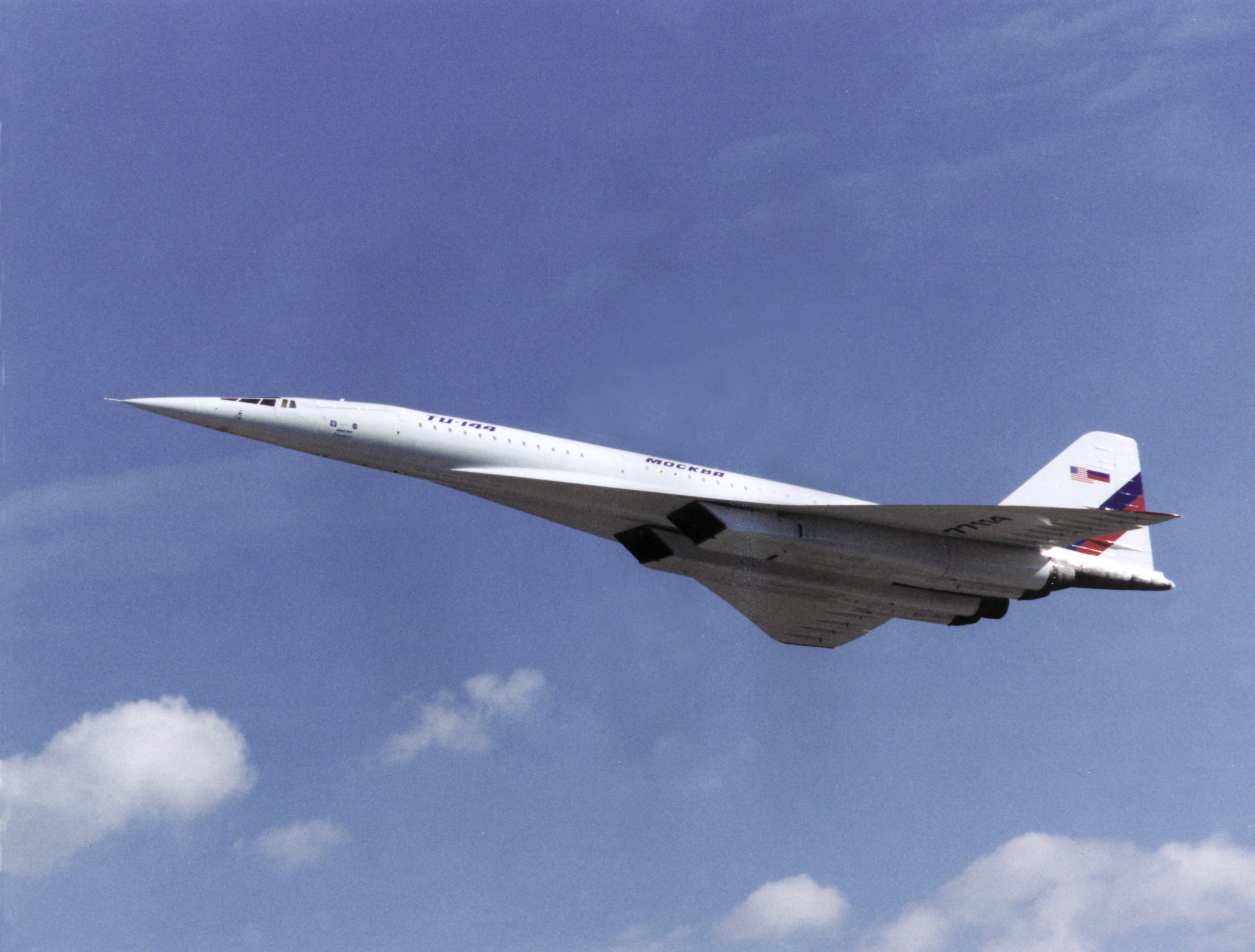 The Tupolev Tu-144LL supersonic flying laboratory shows off its sleek lines in a low-level pass over the Zhukovsky Air Development Center near Moscow, Russia, on a 1998 research flight.